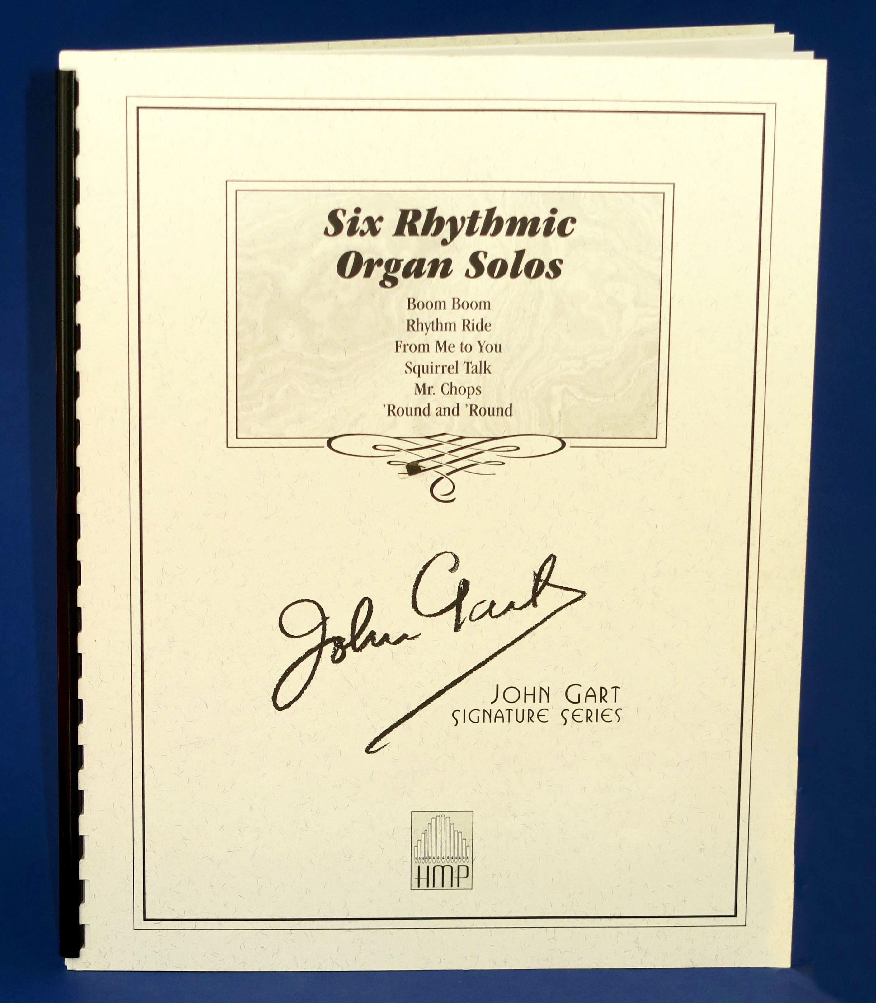 David Hegarty greatly admired the legendary organist John Gart (1905–1989). As archivist for the musical artifacts from the estate of John Gart, David Hegarty has published previously unknown Gart compositions through his publishing company, Hegarty Music Press. This collection of "Six Rhythmic Organ Solos" (composed in 1964) was published in 1994.